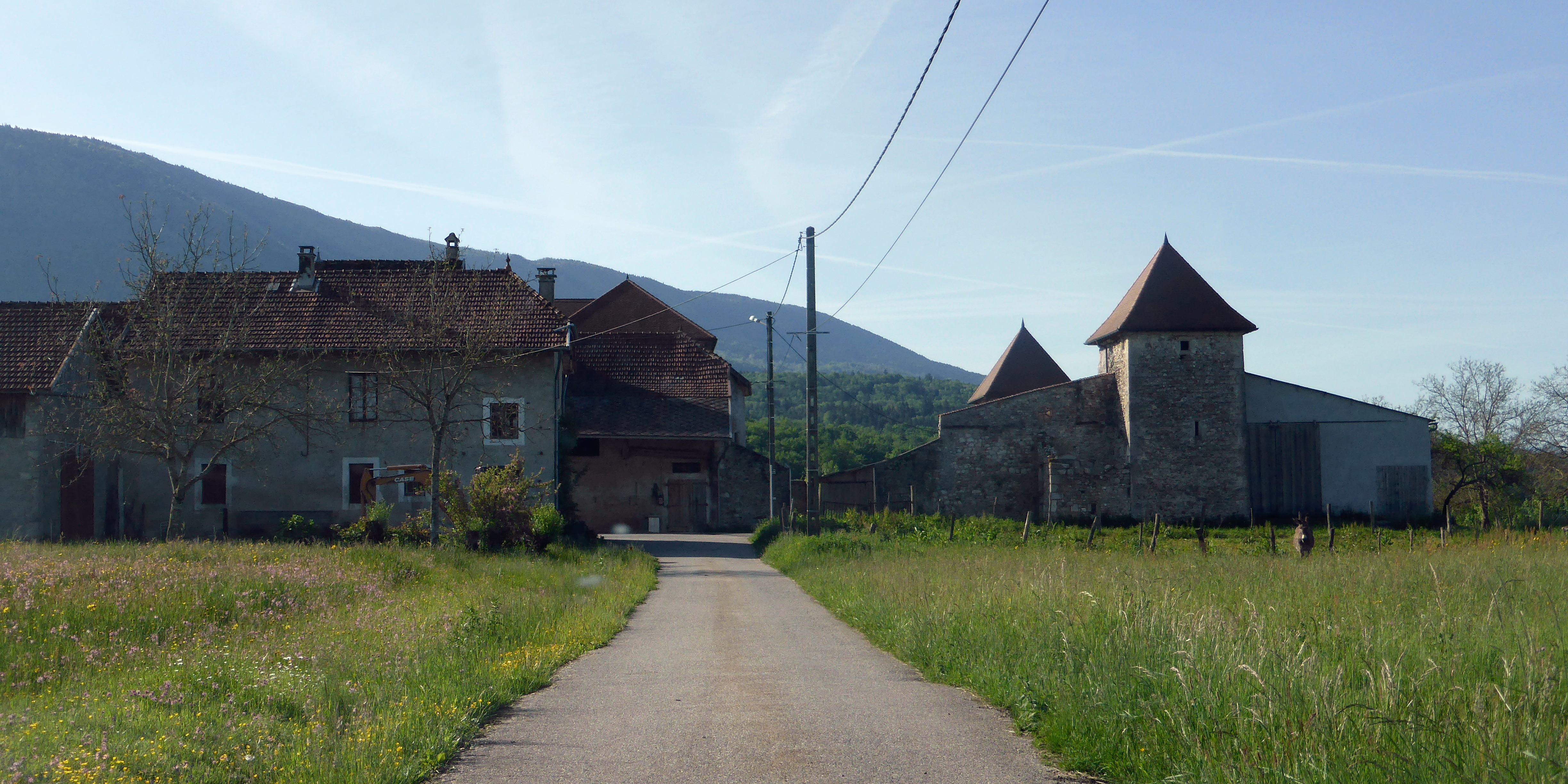 Le Châtelard fortified house, Yenne, Savoie, Rhône-Alpes, France.